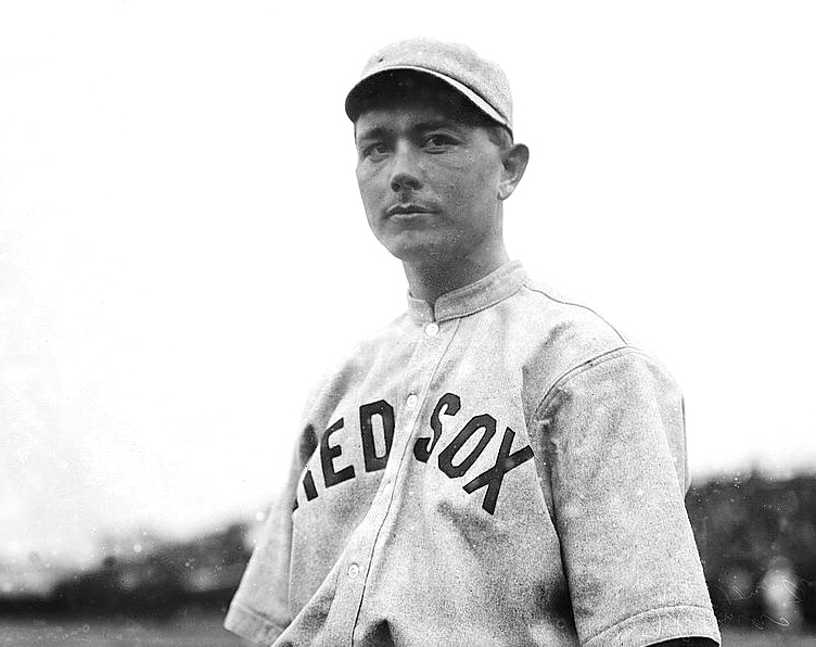 "Chester "Pinch" Thomas, Boston AL (baseball)" A 1913 image, from the Bain News Service, of Pinch Thomas.